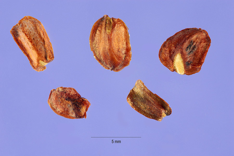 Seeds of Arizona Cypress (Cupressus arizonica var. arizonica)